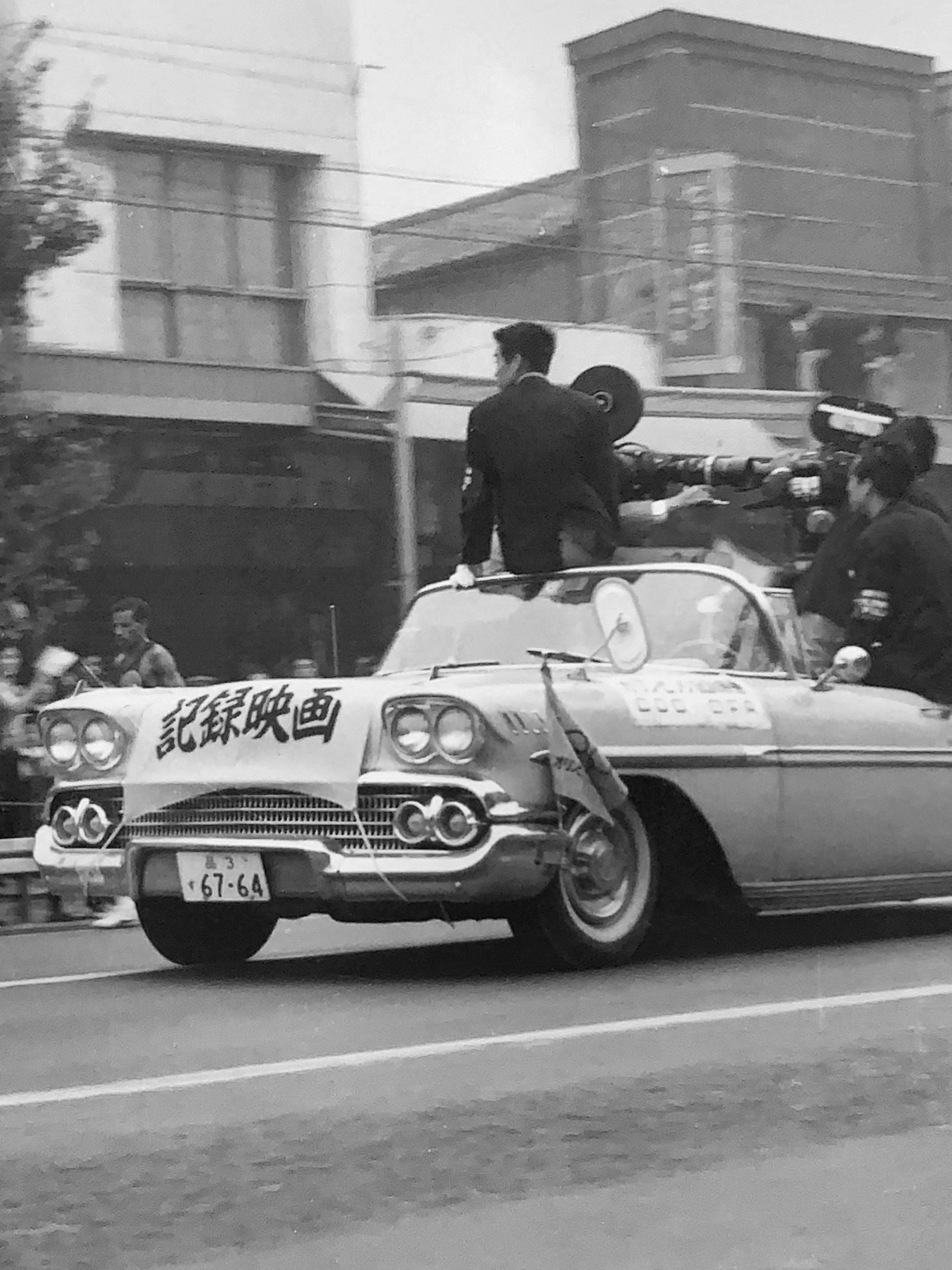 A car that shoots a Tokyo Olympics record movie (1964)